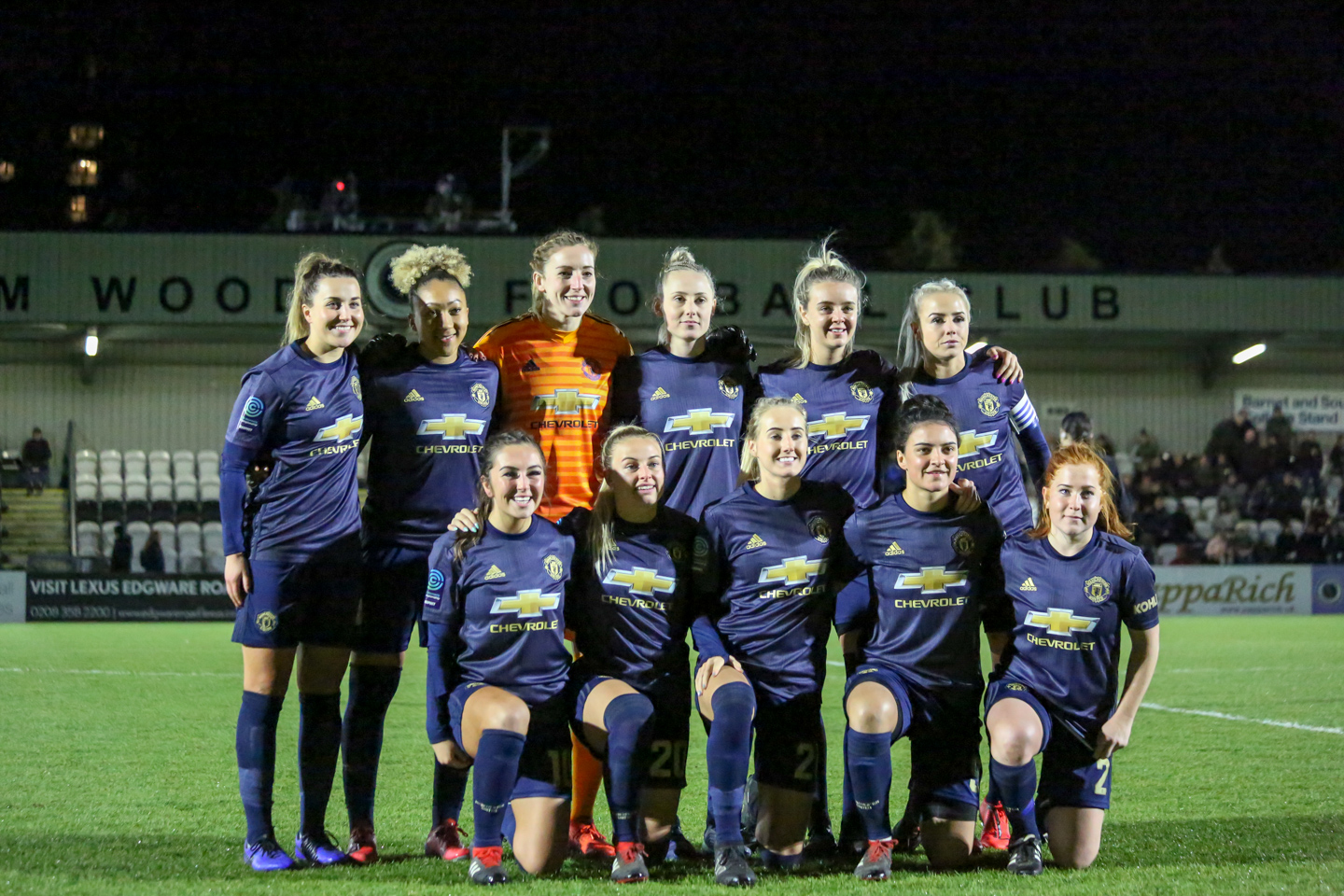 2018–19 FA Continental Tyres League Cup semi-final: Arsenal WFC v Manchester United WFC – Manchester United starting team photo.